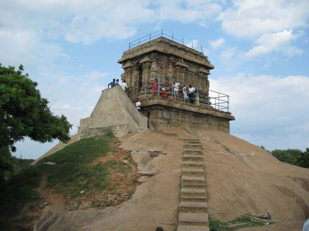 This picture depicts the Mahishamardini Rock Cut Mandapa from about halfway up the slope.